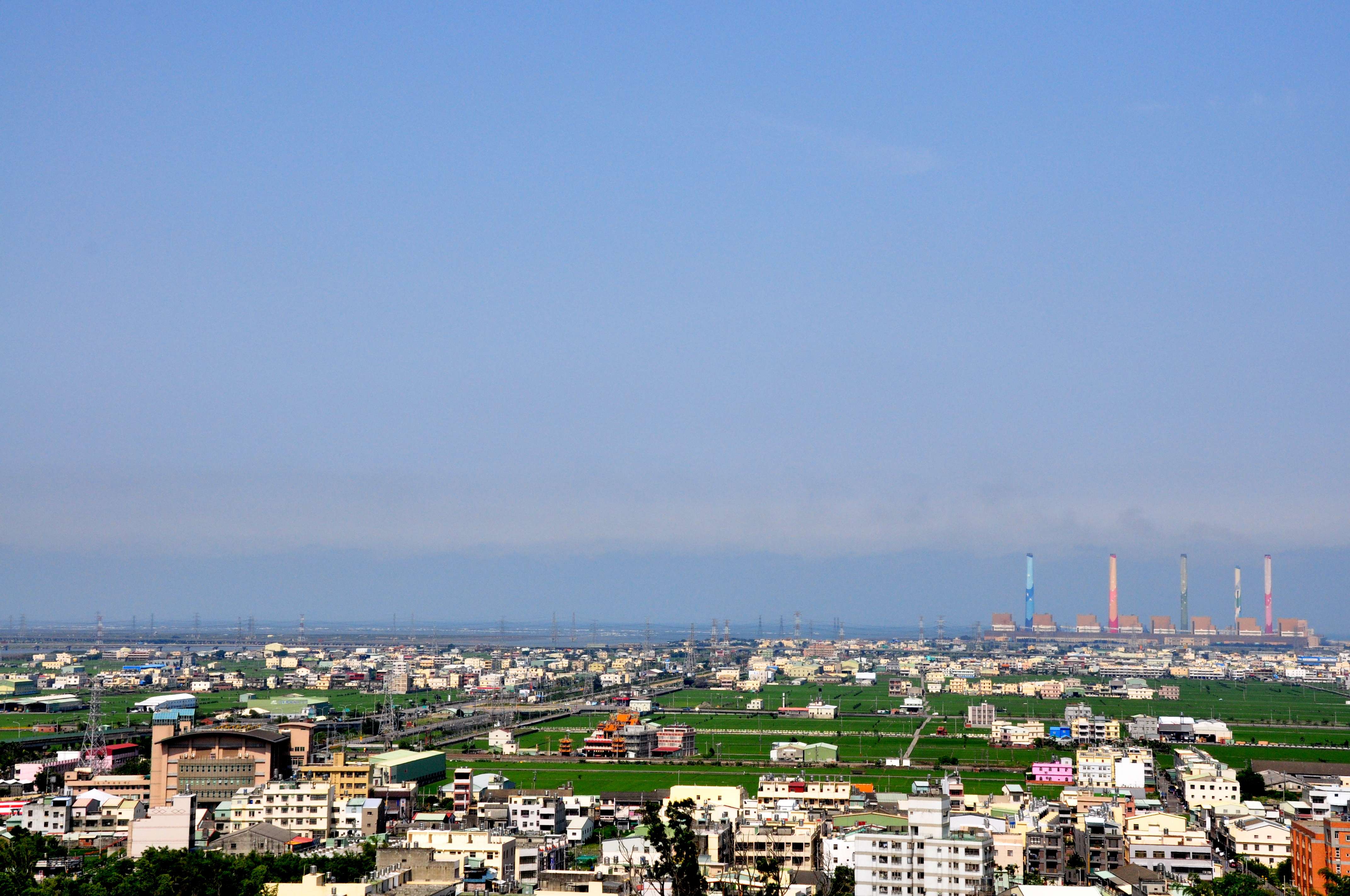 Looking down Qingshui Plain in Longjing Township,Taichung County.The plain is a part of the district of coast-line,and it is a plain in central-west Taiwan.中文（台灣）: 遠眺位於台中縣龍井鄉的清水平原。清水平原是台灣中西部一處平原，是屬於海線地區一部分。